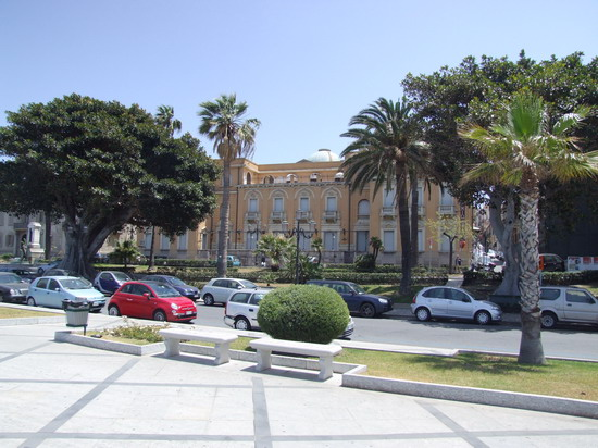 Hotel Miramare in Reggio Calabria